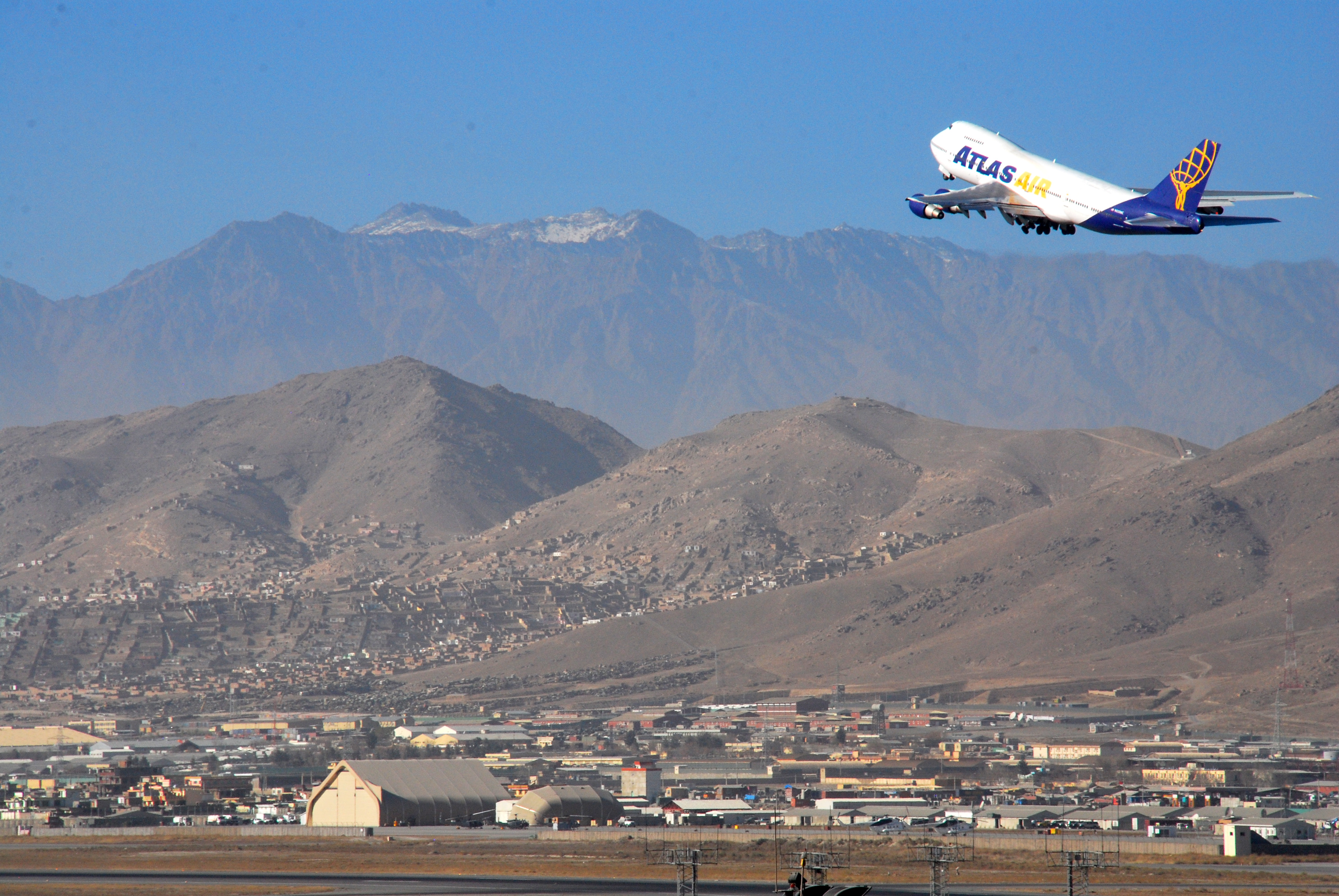 A World Atlas Boeing 747 aircraft takes off from Kabul international Airport, Kabul, Afghanistan, Dec. 13, 2010.